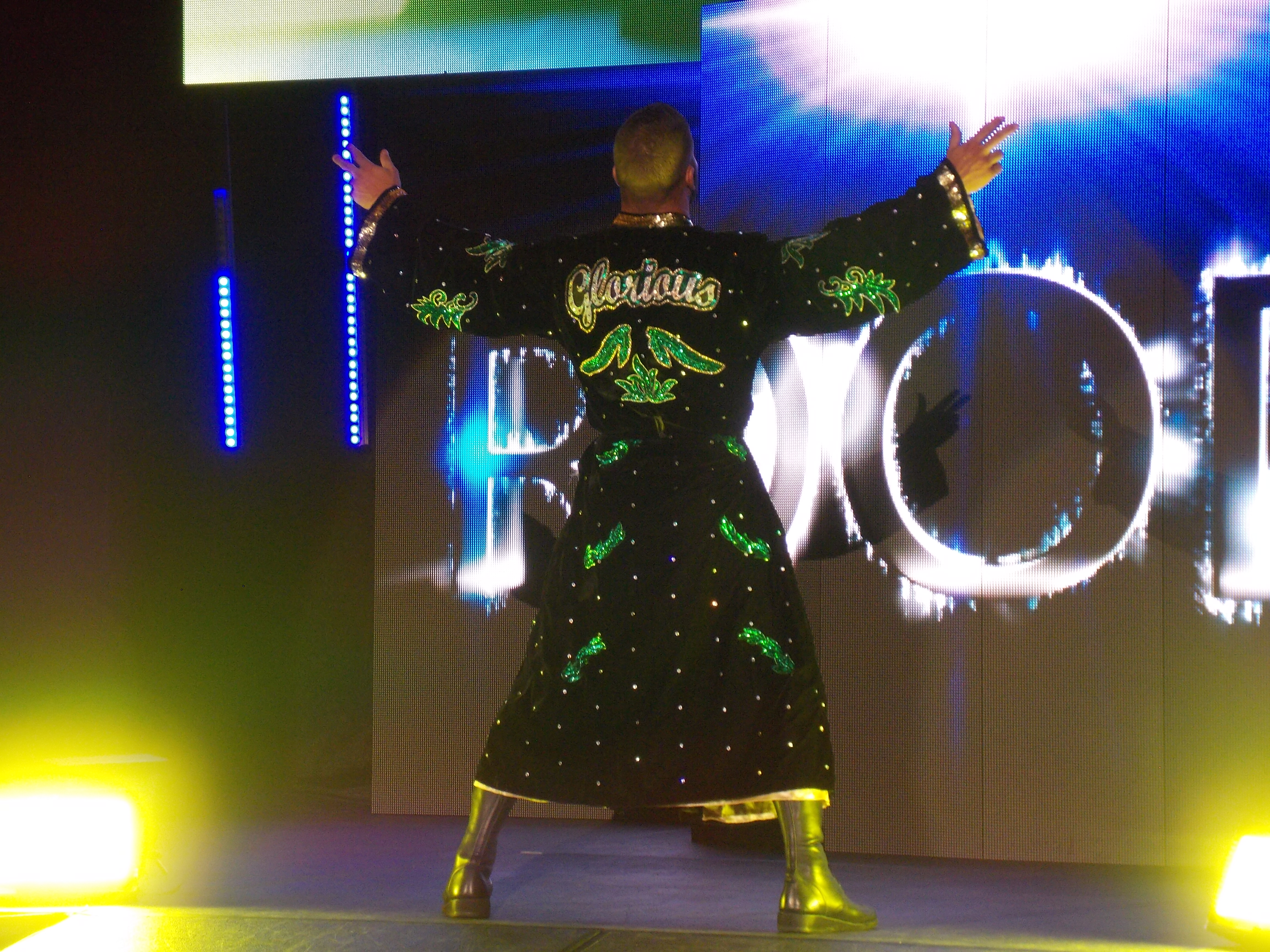 Bobby Roode at an NXT Live Event in Omaha, Nebraska, USA on Saturday, September 17, 2016